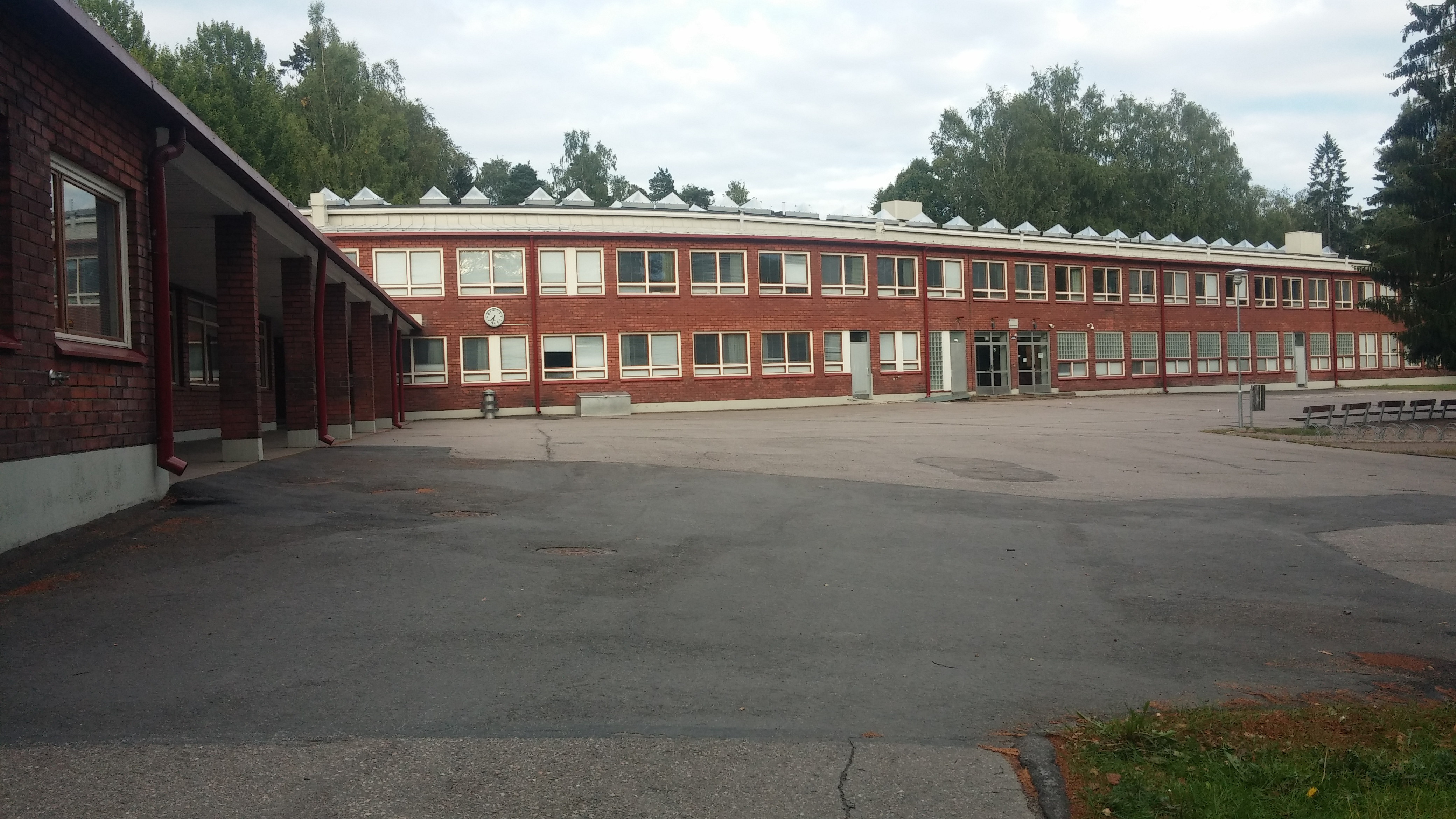 Kannelmäen peruskoulu